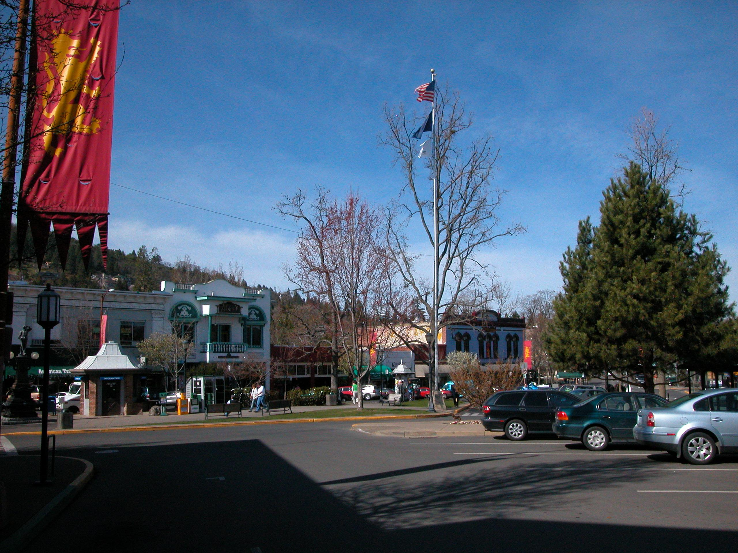 View of Plaza in Ashland, OR facing East to West. This photograph was taken by me on March 5, 2005.